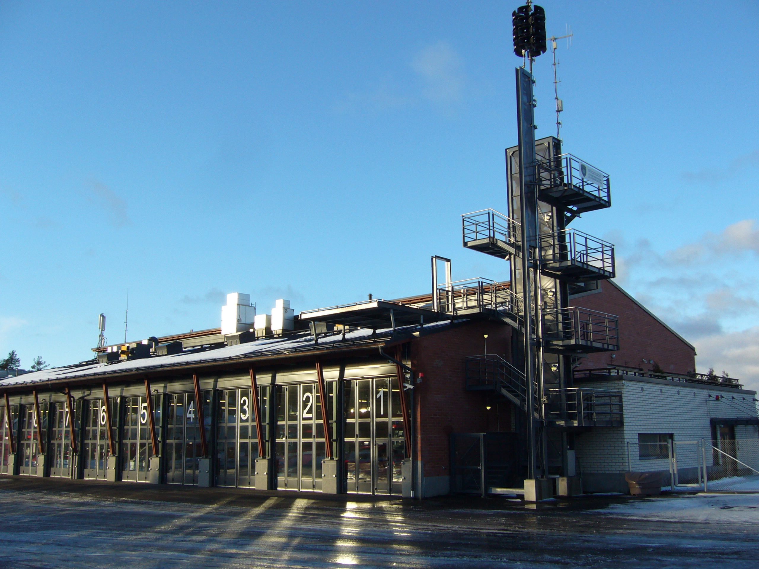 Lohja Fire station